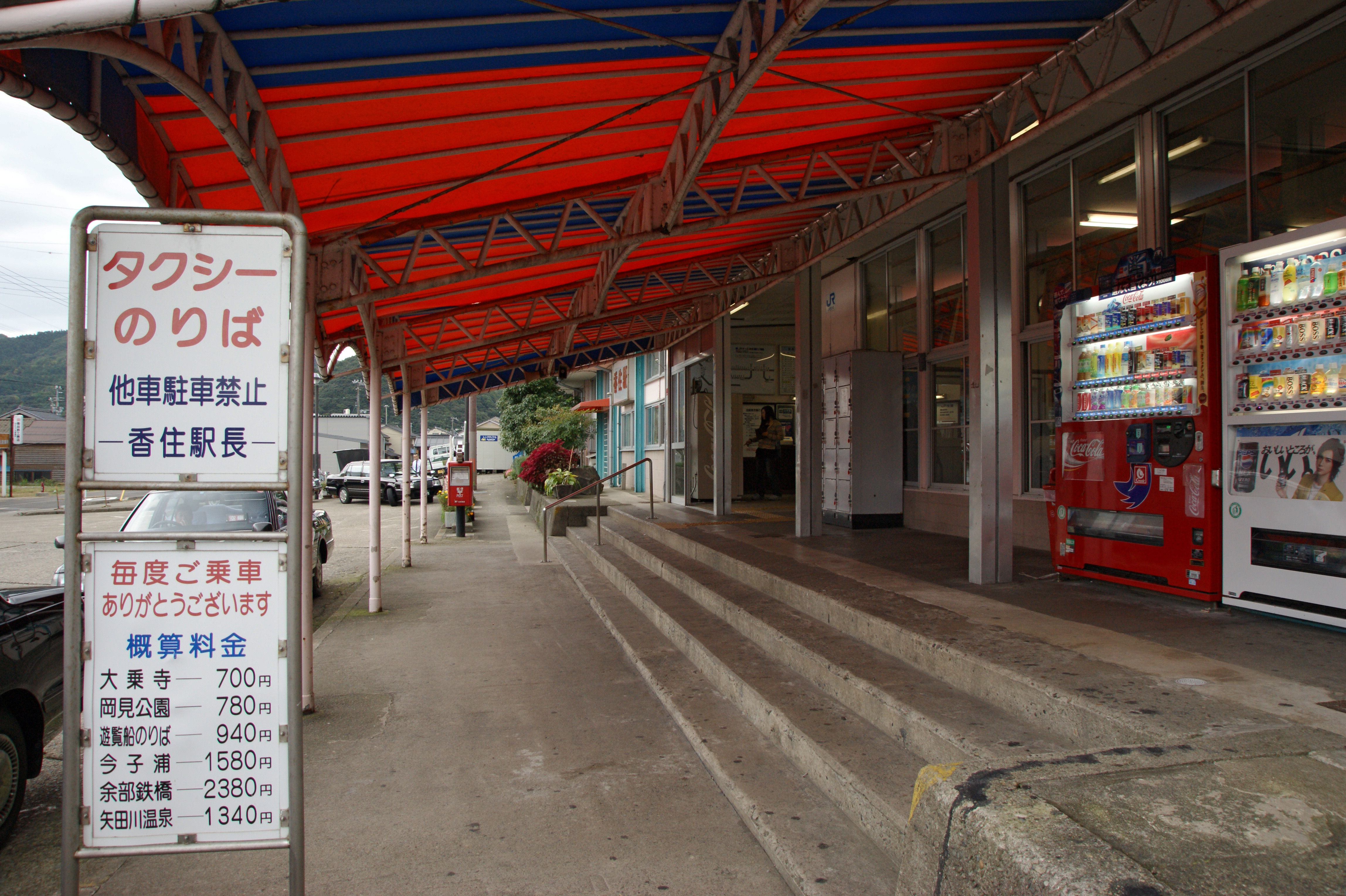 Kasumi Station in Kami, Hyogo prefecture, Japan